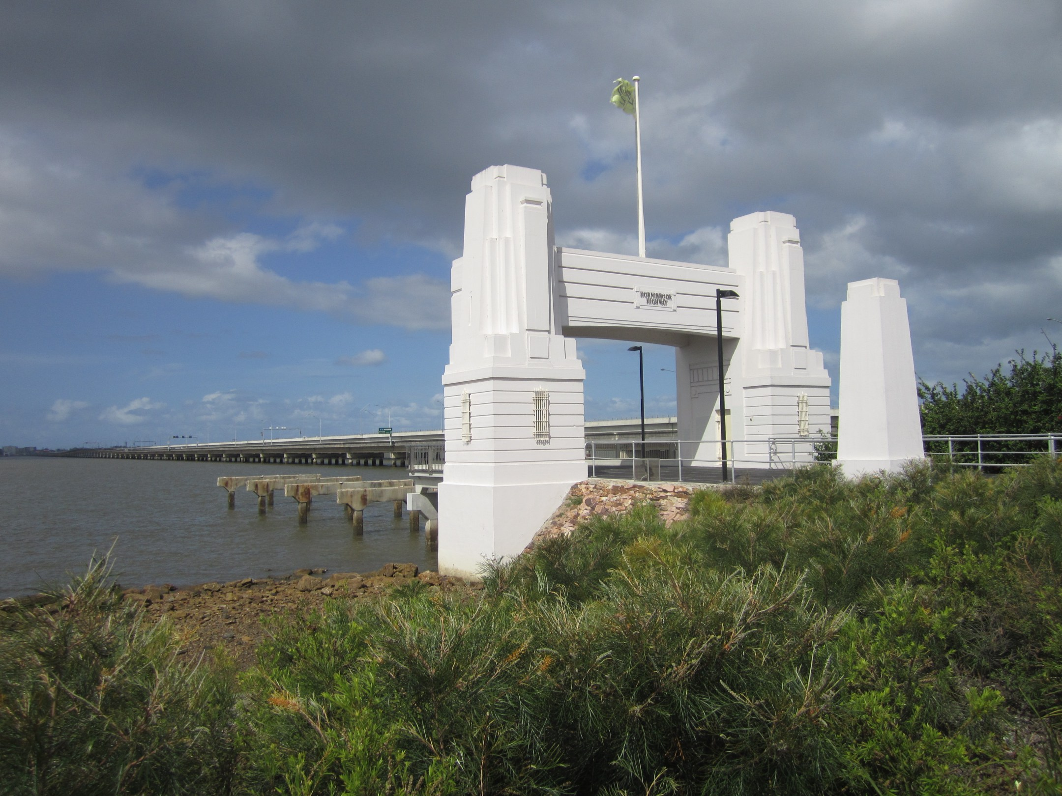 Southern portal of the former Hornibrook Highway Bridge. At one point, this was a tollgate for cars crossing the bridge. The portals for the bridge are listed on the Queensland Heritage Register.